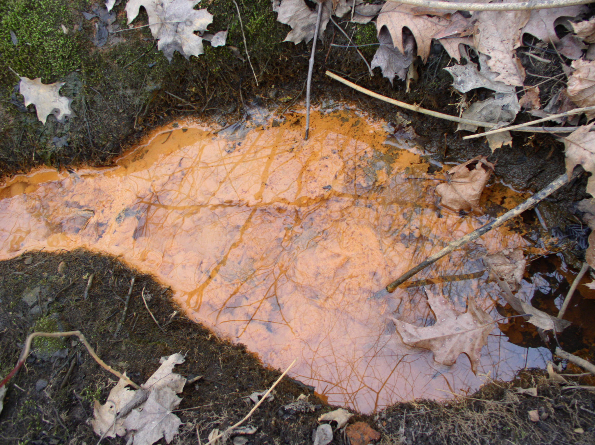 Iron bacteria in surface water. Location: Exeter River, Exeter, NH, USA.